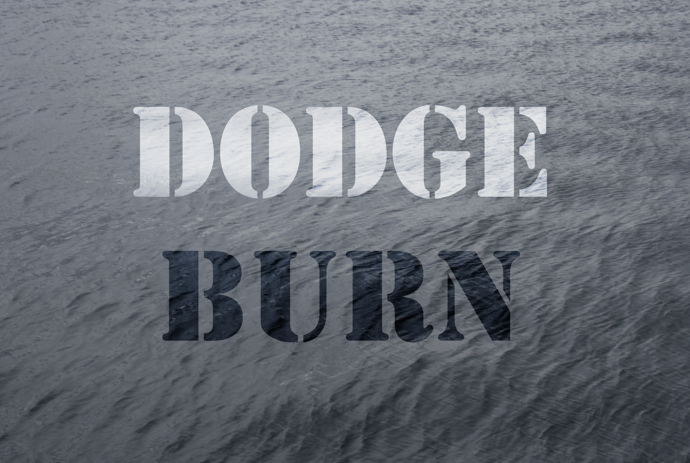 Photograph of the body of water near Middlesbrough "The Riverside" football stadium, with dodge and burn text overlaid in order to give an example of the two effects.